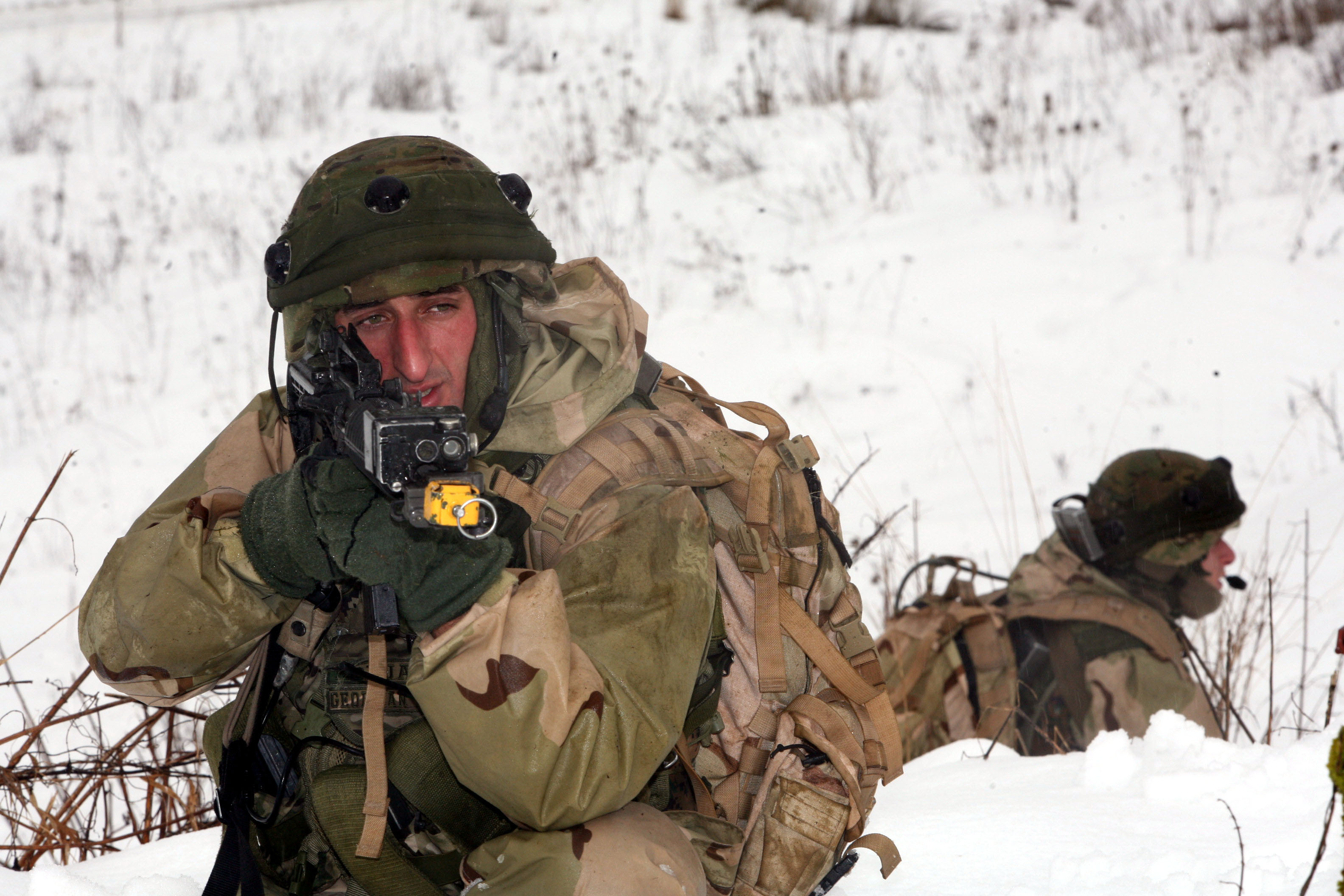 Two Georgian soldiers from Scout Platoon, Delta Co., 23rd Light Infantry Battalion keep a watchful eye on the surrounding area after the platoon engaged in a firefight with enemy insurgents while on a reconnaissance mission during a mission rehearsal exercise at Joint Multinational Readiness Center, Hohenfels, Germany, Feb. 17. The MRE is the culminating event for the Republic of Georgia's 23rd Light Infantry Battalion prior to deploying to Afghanistan to conduct counterinsurgency operations in support of the Georgia Deployment Program - International Security Assistance Force (GDP-ISAF). The total training exercise runs Feb. 1 - 24.